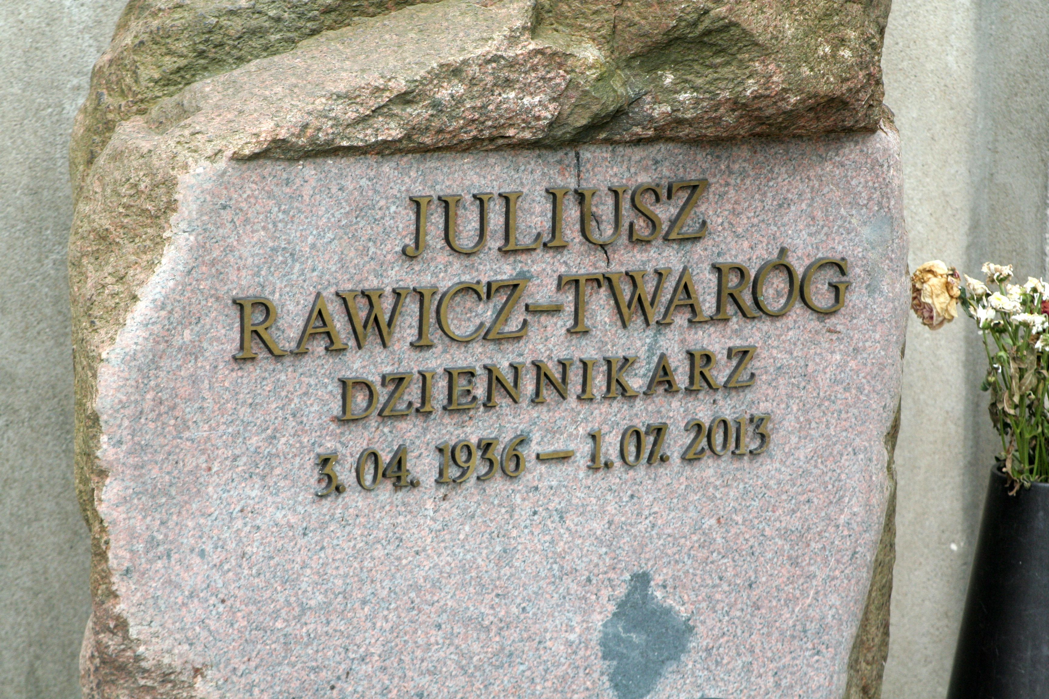 Juliusz Rawicz's grave at Protestant Reformed Cemetery, Warsaw.